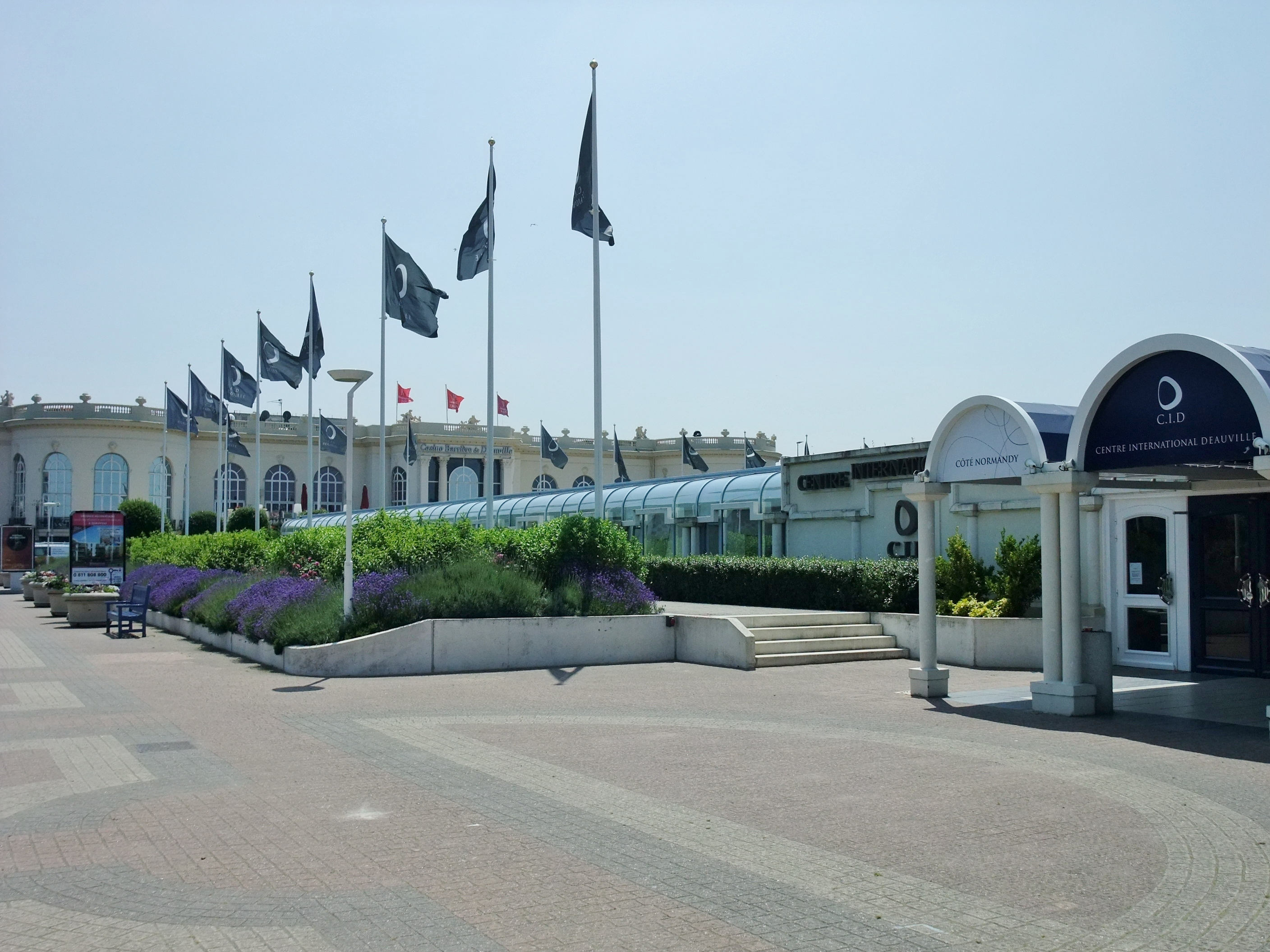 Centre-International-de-Deauville, France